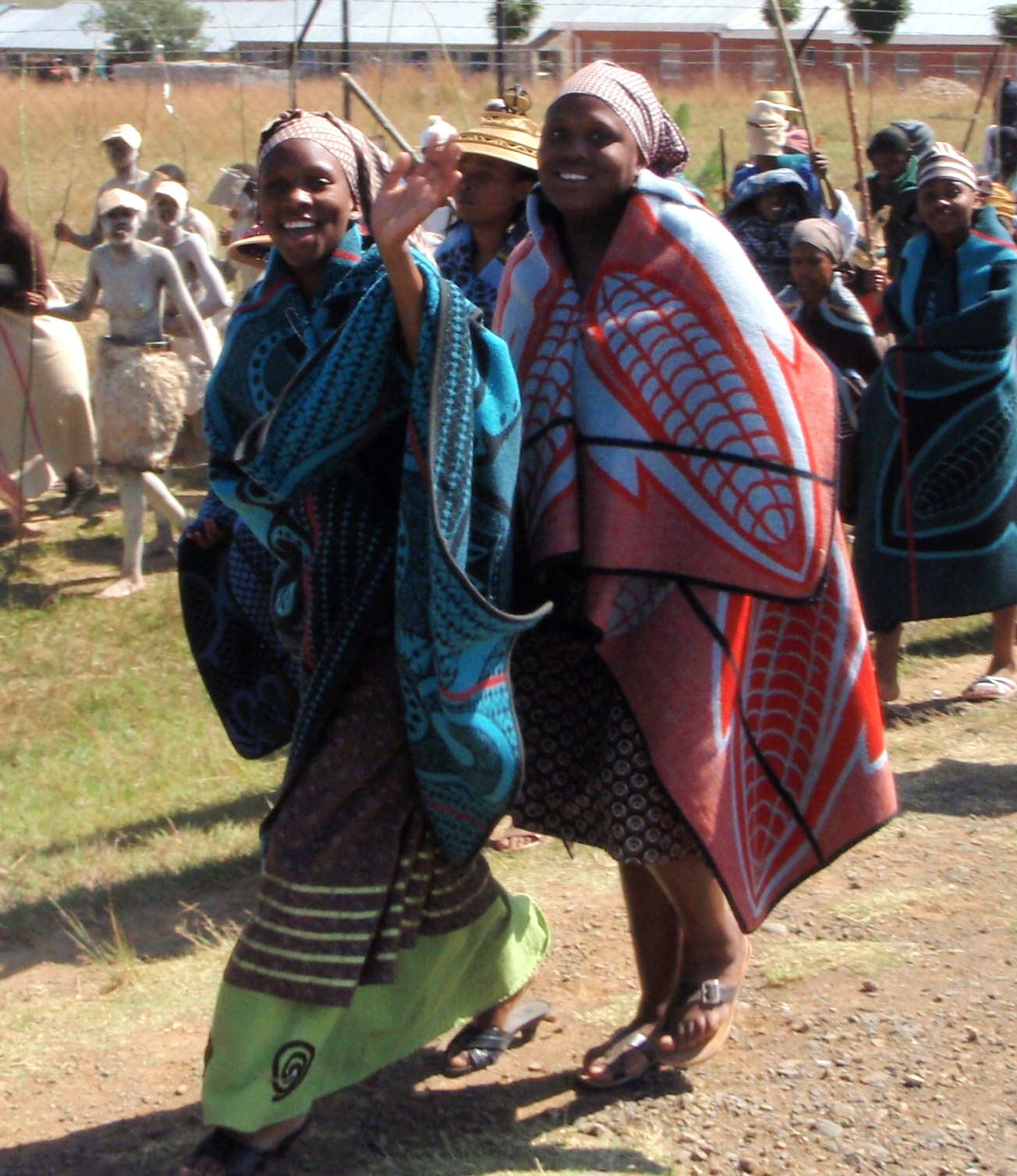 Parade of Basotho Women in Lesotho, Africa